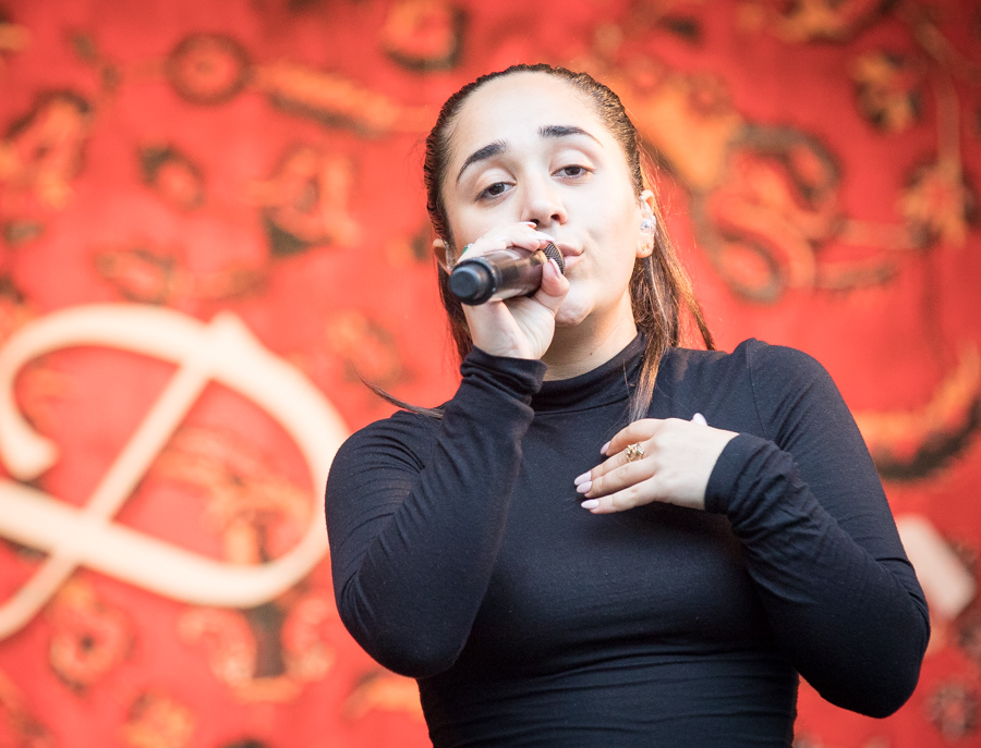 Amanda Delara at the minor stage in the Vigeland Park. The concert was part of Piknik i Parken and took place on 23. June 2017 in Oslo. Lineup: Amanda Delara (rap), Unidentified (violin) and Unidentified (cello).